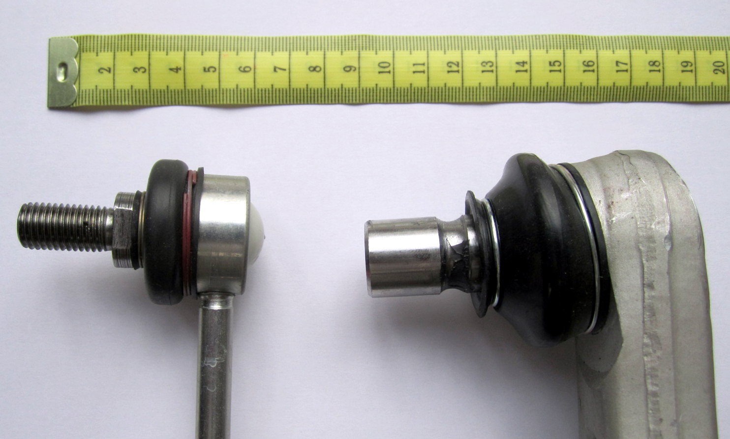 Ball joints in the running gear: left side stabilizer fixation, right side ..., scale in Centimeter